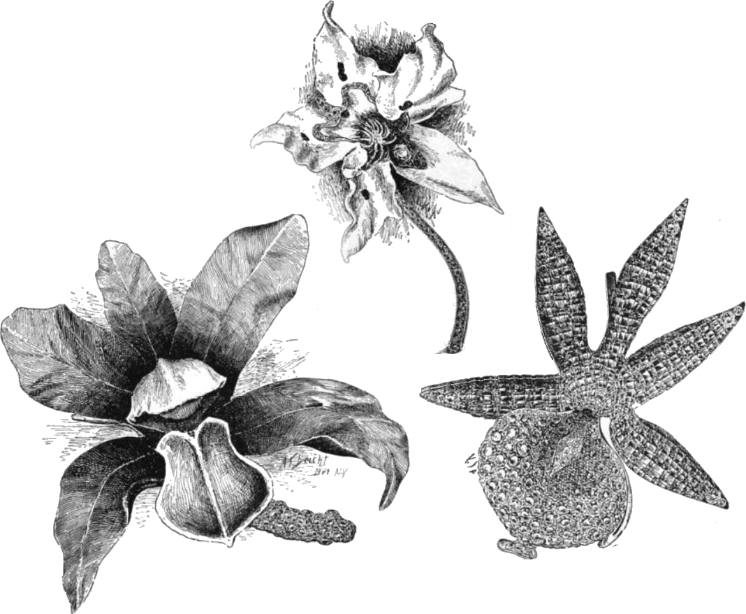 Orchid brooches designed by Paulding Farnham for the 1889 Paris Exposition. Clockwise from top: 1. Odontoglossum 2. Angraecum eburneum 3. Cattleya bicolor. Credits This composition of the PD drawings was created by User:Froggerlaura.